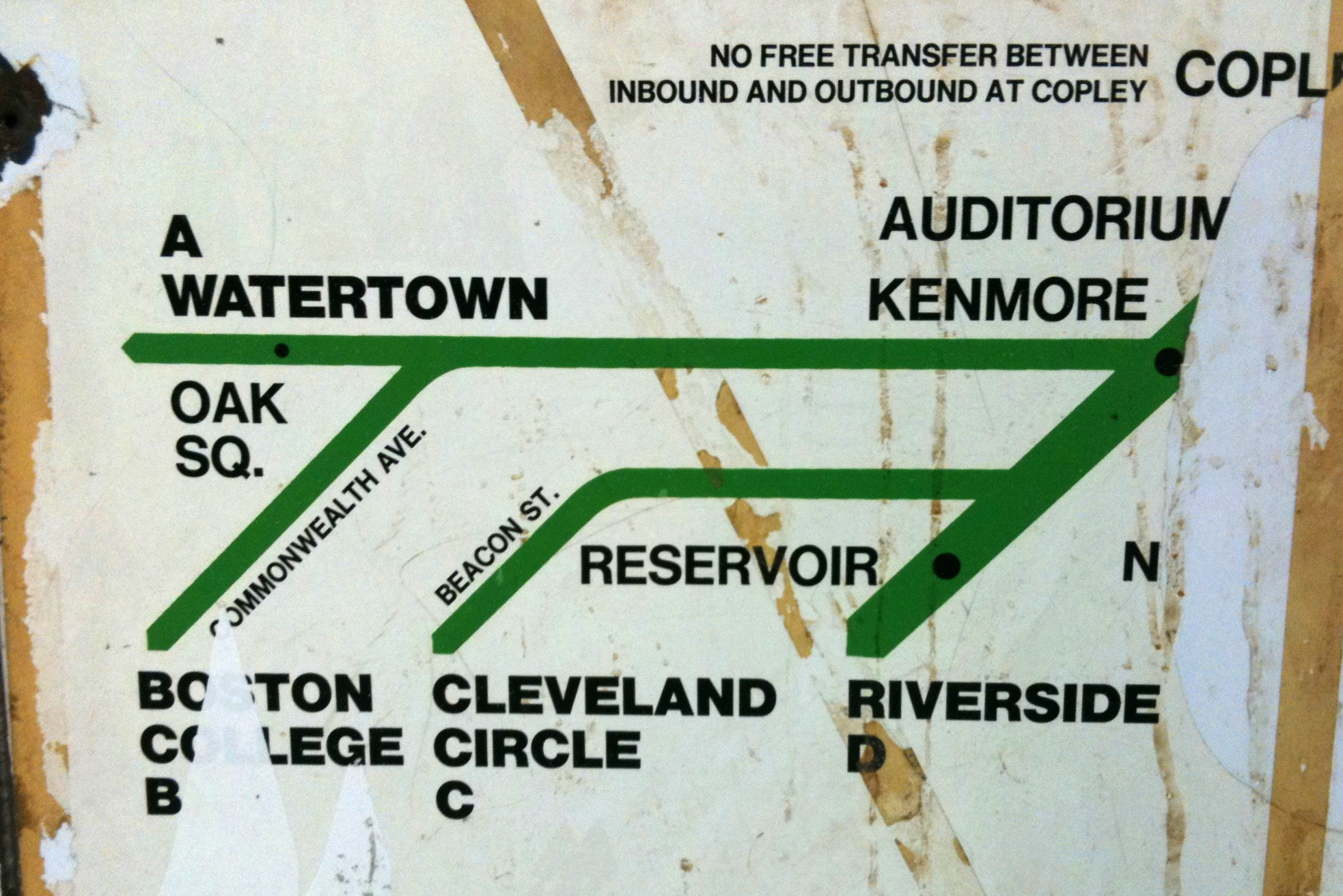 Picture of an old MBTA map at Copley showing the A branch of the Green Line.